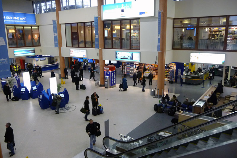 Inside the terminal building (landside) of London City Airport.